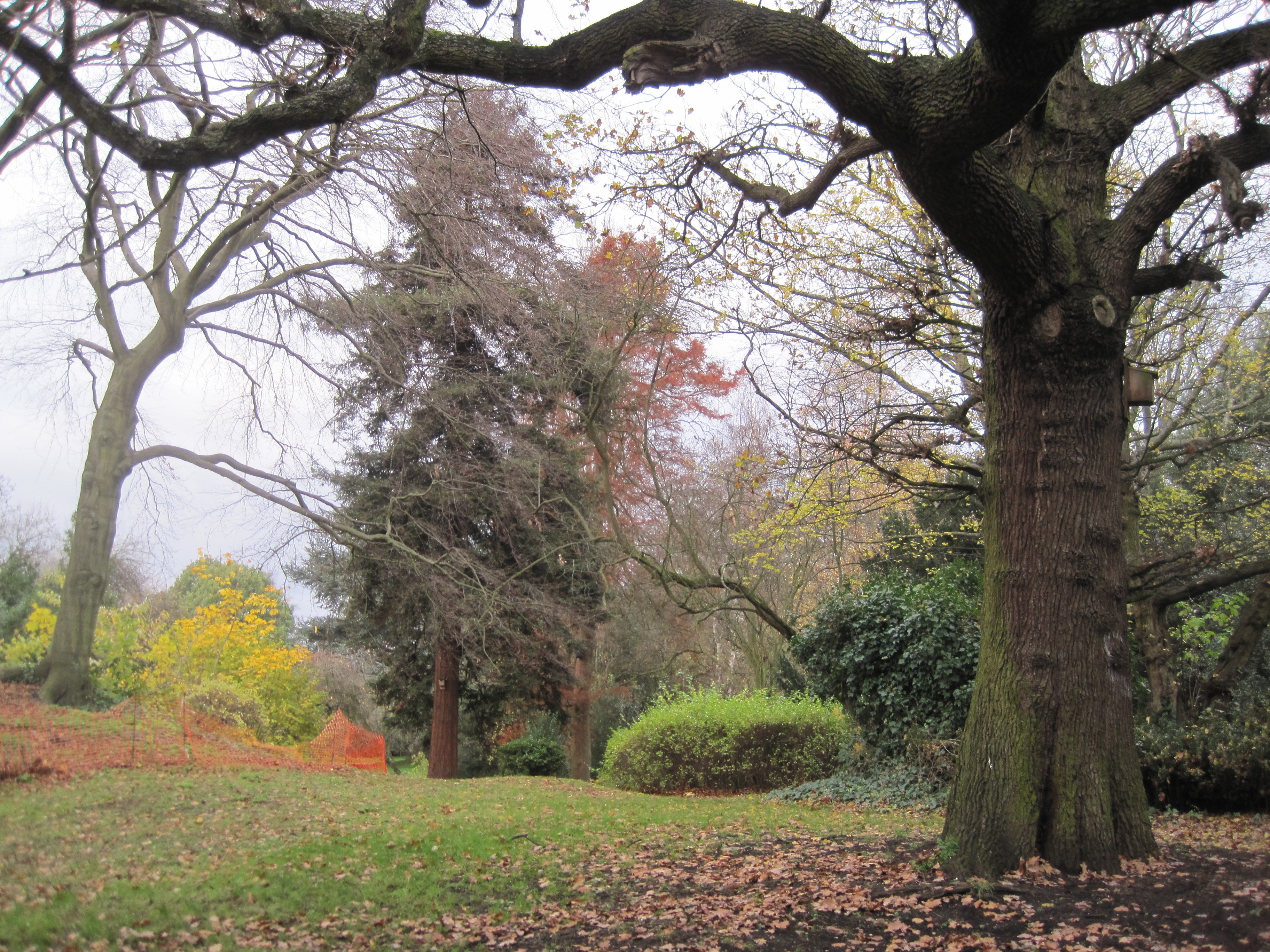 Avenue House Grounds, nature reserve in Finchley, Barnet, London